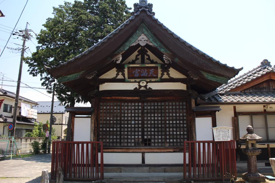 Iida, Nagano Prefecture, Japan